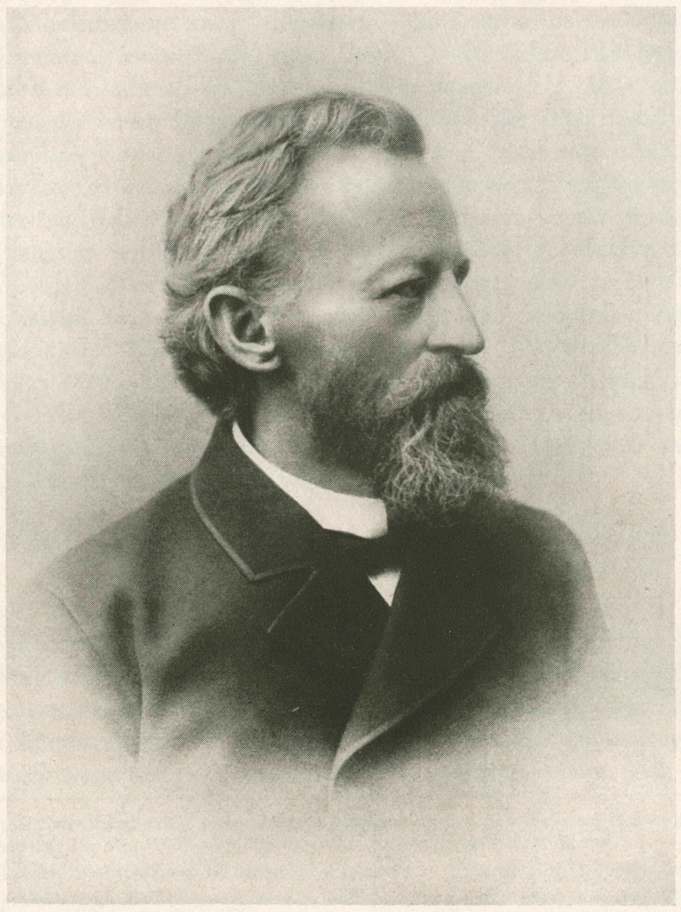 Portrait of Gustav Vogt (1829–1901)